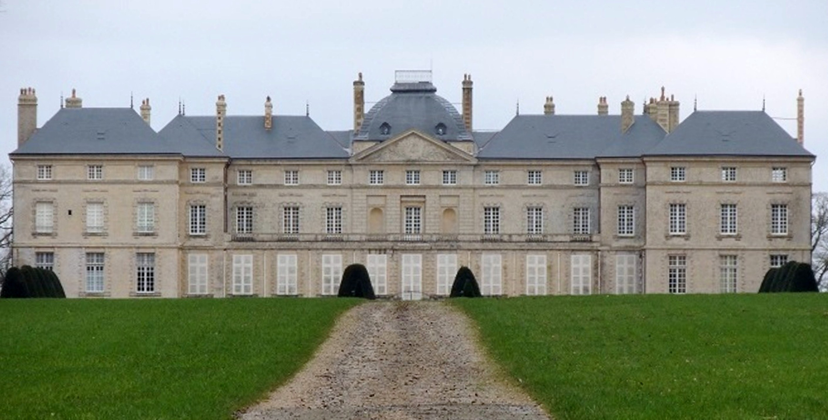 The castle of Sourches in Saint-Symphorien in the French department of Sarthe and successive property of the family Bouchet de Sourches then Pérusse des Cars.